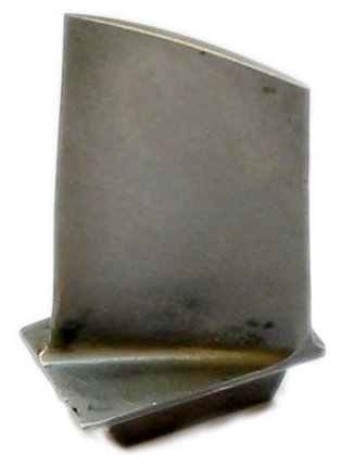 A turbine blade of a Steam turbine